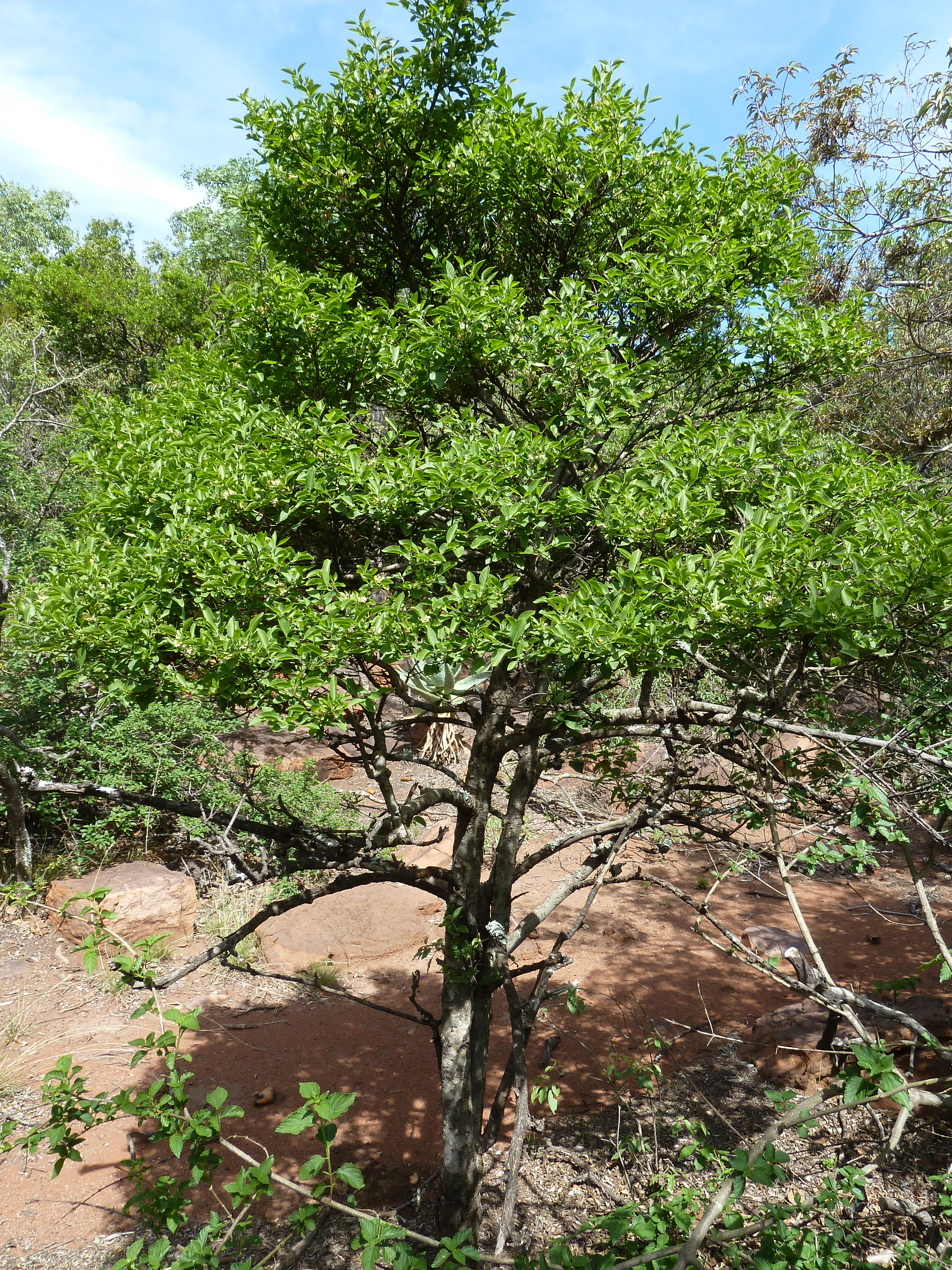 Habit of a Green-twigs quar growing on rocky ridge at Seringveld near Pretoria, South Africa